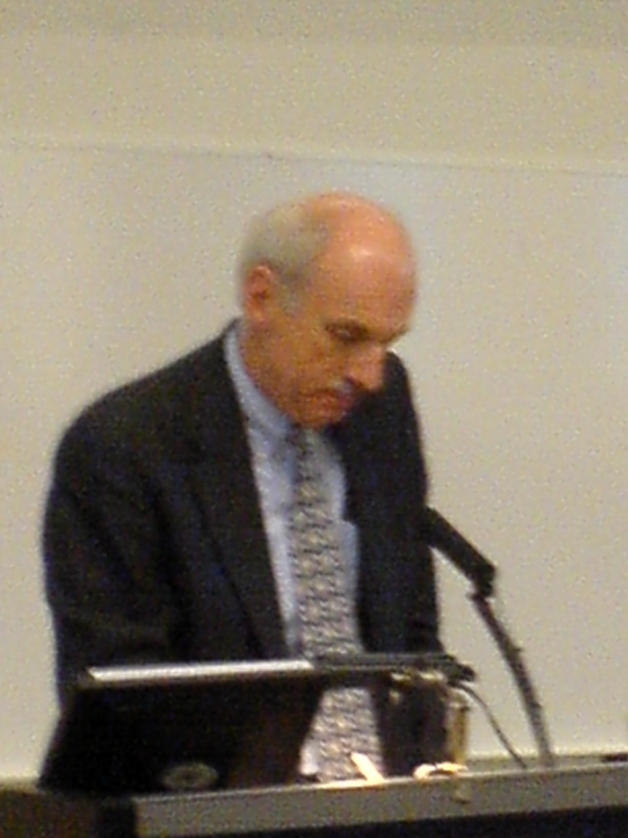 Robert Owen Keohane (b. 1941), an American academic, Professor of Political Science at the Woodrow Wilson School at Princeton University. (Photo from Lund University, 2007)